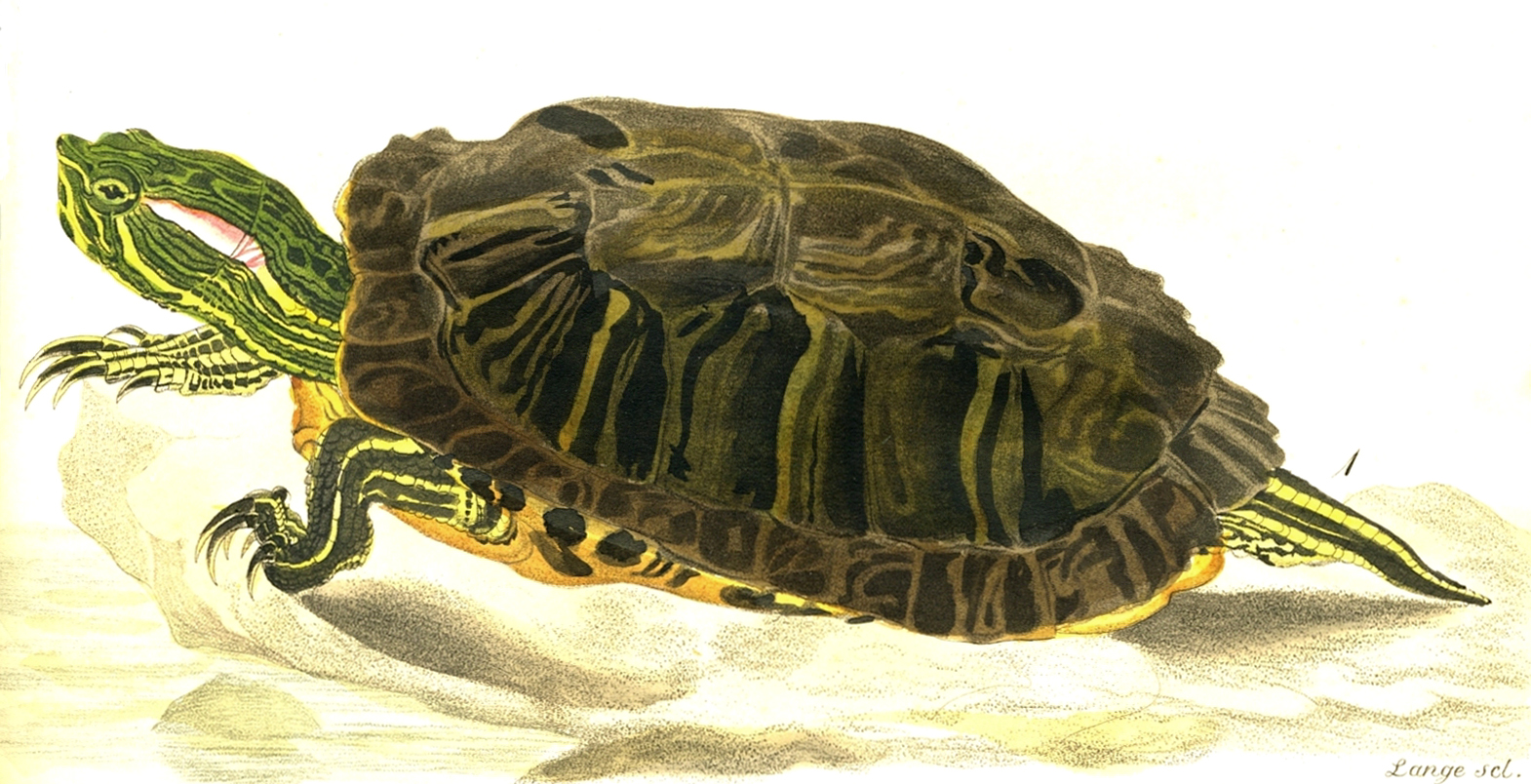 Trachemys scripta elegans (Wied), commonly known as the red-eared slider. Prince Maximilian zu Wied-Neuweid gave it the name Emys elegans.